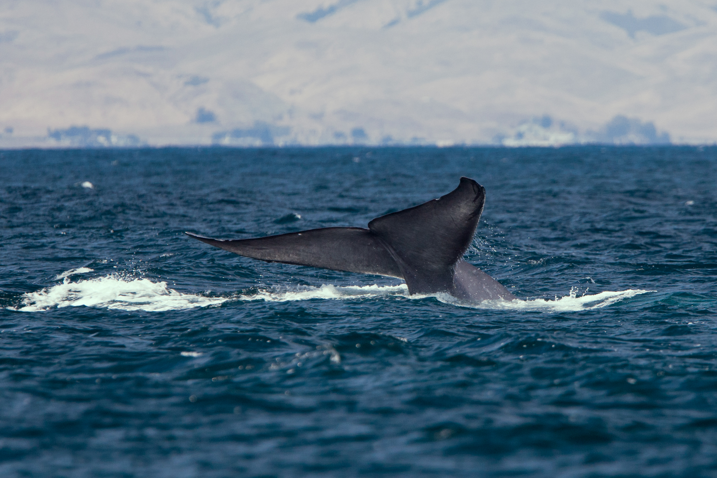 Blue Whale Tail Fluke Diving Balaenoptera musculus 29 July 2010 - It is somewhat rare to see the tail fluke of a Blue Whale upon diving. Whale Watching on the Dos Osos Sub Sea Tours 34’ boat 805-772-WIND, 29 July 2010, Morro Bay, CA. Blog: Crew: Owner & Captain Kevin Winfield; first-mate Ryan. We saw about four Blue Whales and Dozens of Humpbacks, some very close to the boat. Photo by “Mike” Michael L. Baird, mike {at] mikebaird d o t com, , Canon 1D Mark III, Canon 300mm f/2.8 with Canon EF 1.4X II Extender Telephoto Accessory, Circular Polarizer, handheld, RAW. To use this photo, see access, attribution, and commenting recommendations at - Please add comments/notes/tags to add to or correct information, identification, etc. Please, no comments or invites with badges, images, multiple invites, award levels, flashing icons, or award/post rules. Critique invited. Keywords: subseatours,morro bay,whale,whales,whale watching,ocean, whale, 29july2010, Blue Whale,Balaenoptera musculus